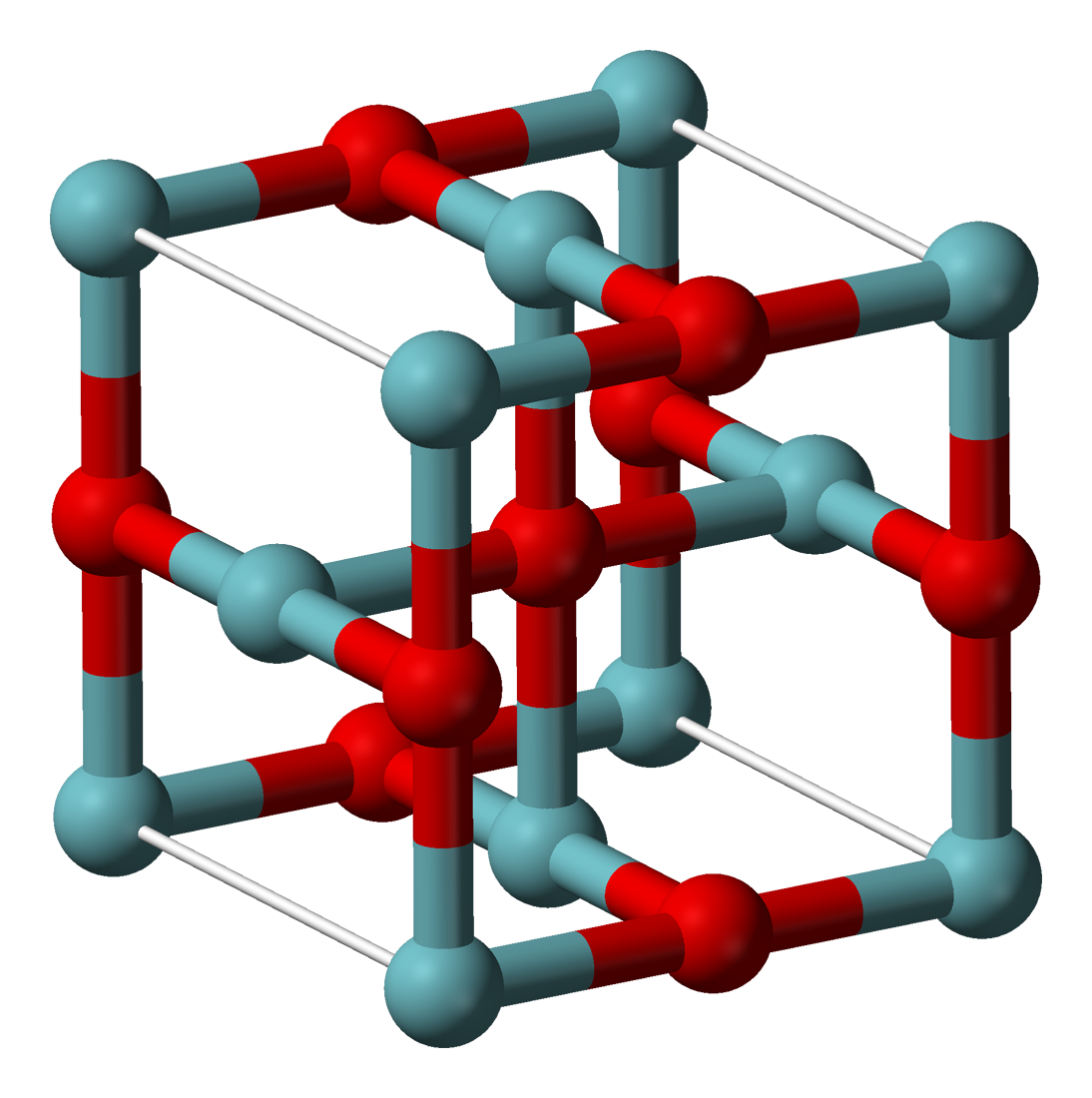 Ball-and-stick model of the unit cell of niobium monoxide, NbO. Structural data from CrystalMaker 8.1's structure library. Original structure determination available at A. L. Bowman, T. C. Wallace, J. L. Yarnell and R. G. Wenzel (November 1966). "The crystal structure of niobium monoxide". Acta Cryst. 21 (5): 843.